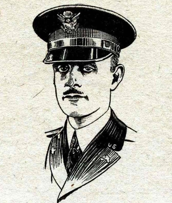 S, P, Meek, as depicted in the June 1930 issue of Wonder Stories